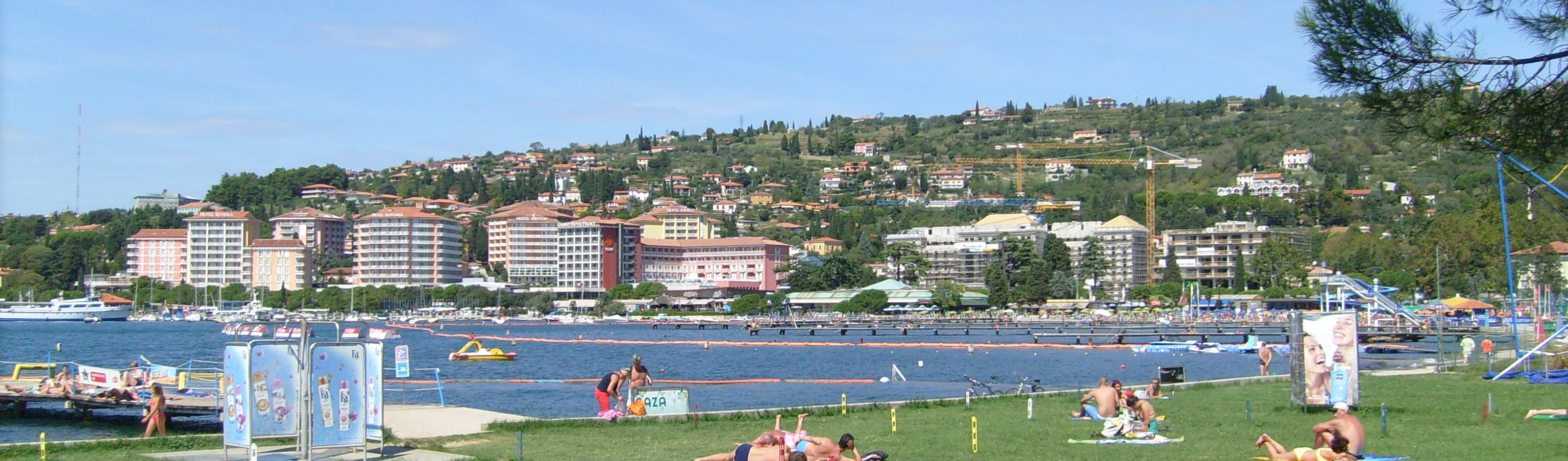 Portorož: The beach, the sea and hotels